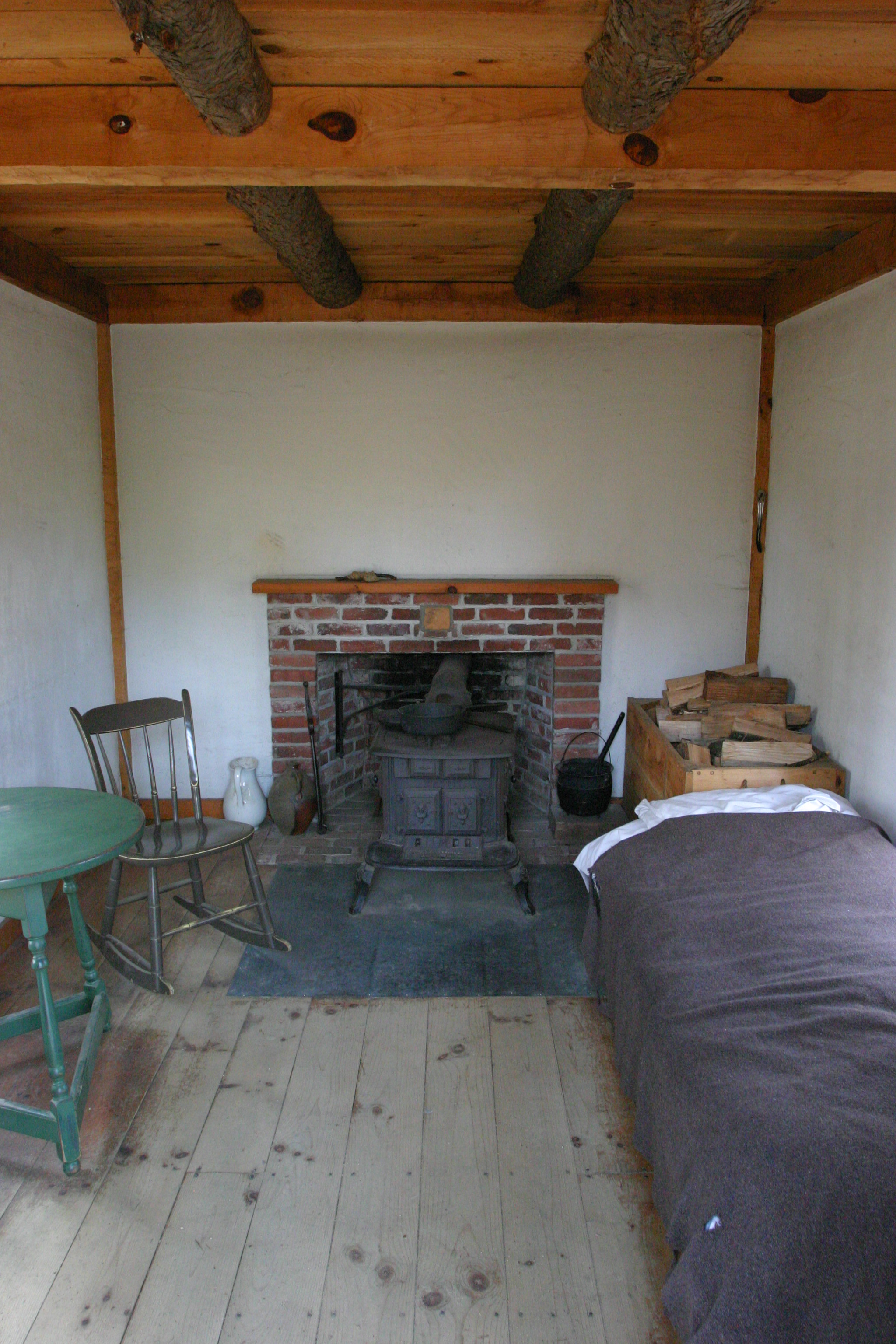 Interior of replica of Thoreau's cabin, Walden Pond